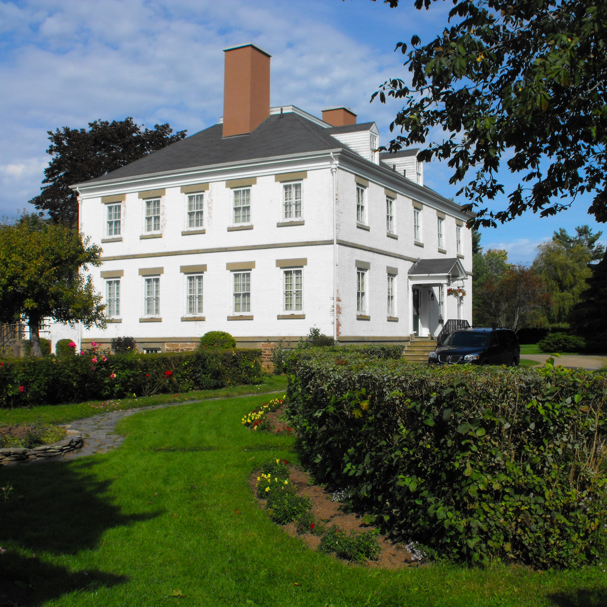 View of Prescott House Museum (Acacia Grove), Starr's Point, Nova Scotia.